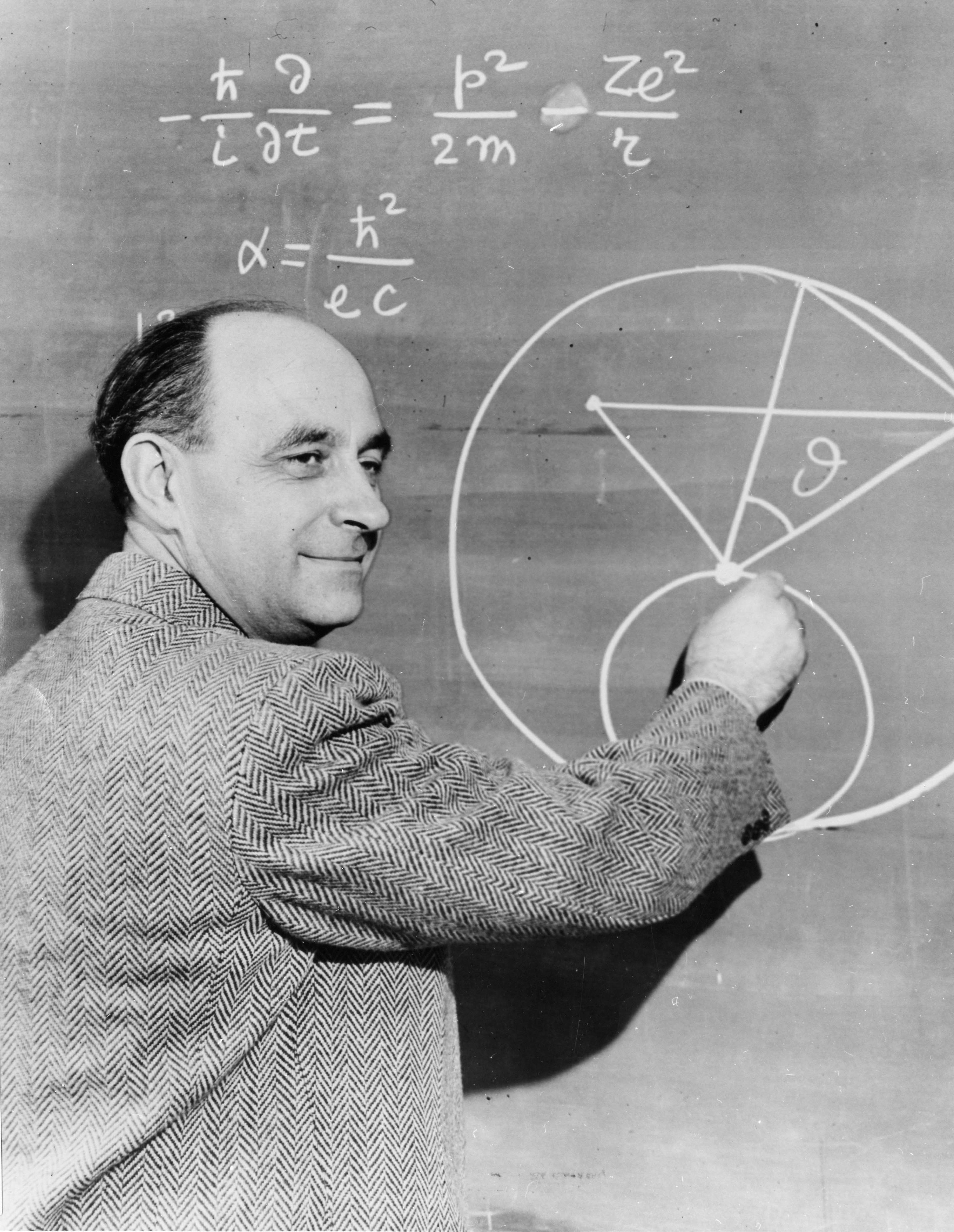 Enrico Fermi at the blackboard. Interestingly the blackboard contains an error: the equation for the fine-structure constant should read α = e 2 ℏ c {\displaystyle \alpha ={\frac {e^{2 {\hbar {}c } .